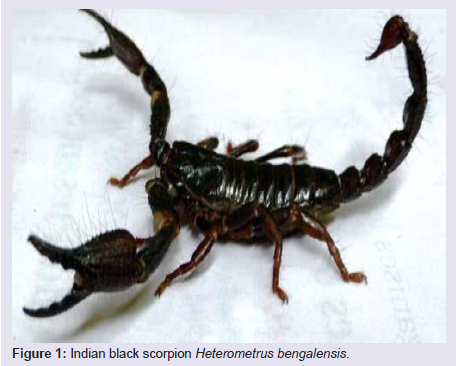 Heterometrus bengalensis, laboratory specimen